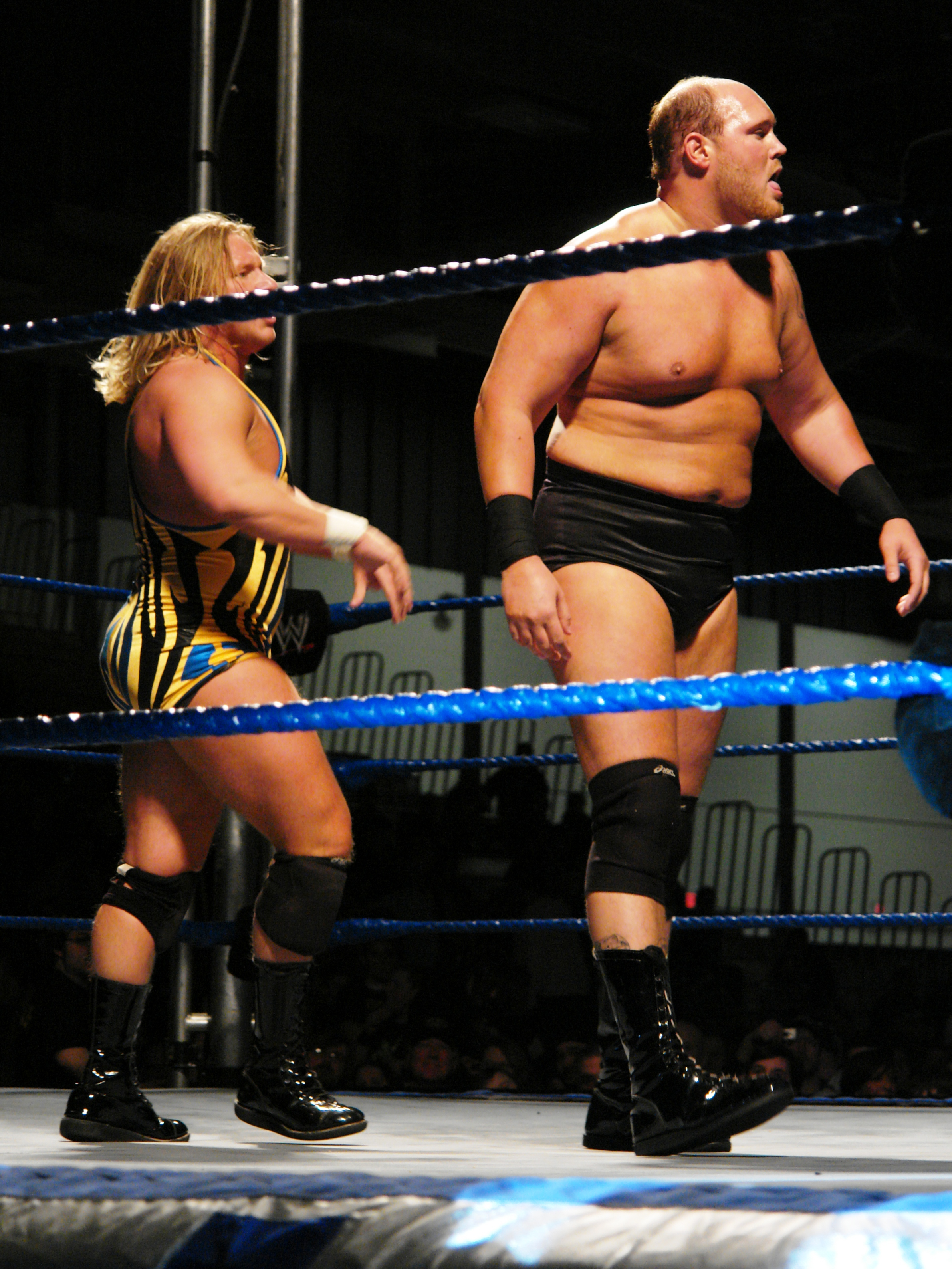 Jesse and Festus at a SmackDown/ECW live event. Oshkosh, WI. Taken by me.